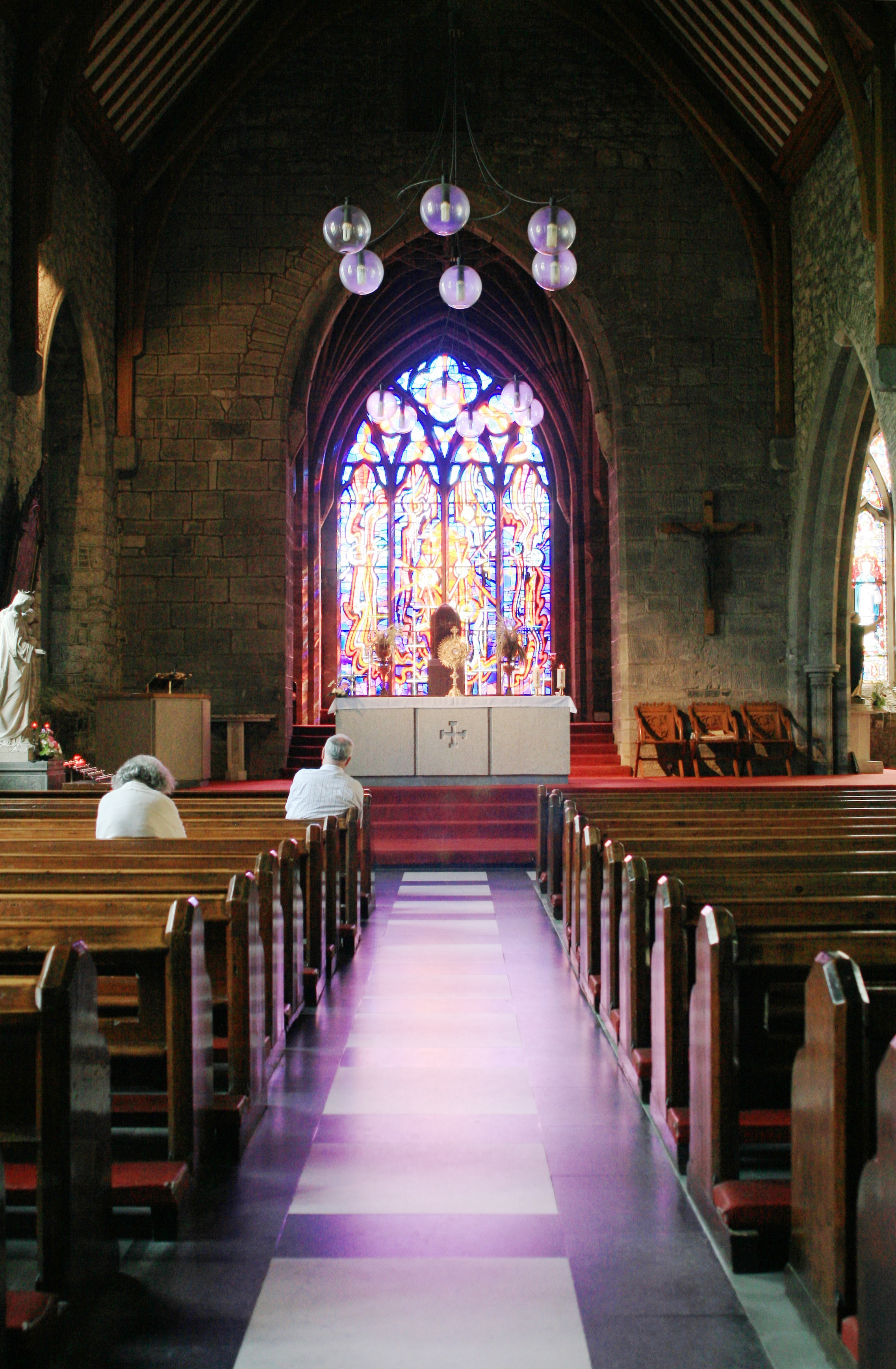 Kilkenny, Co. Kilkenny, Ireland View through the 13th-century nave to the chancel and the east window of Black Abbey. The sanctuary including the altar and the stained glass of the east window were made in 1977-1979. (The stained glass was crafted by the Dublin Glass and Paint Company.) The intention of the architect C. Harbey Jacob of Waterford was to clear the church and then restore the liturgical priorities. An altar dominating by its size and simplicity; a tabernacle raised to draw the eye in the empty church; a lectern placed so as to command the two congregations of the L-shaped interior. [..] The result is an interior in which there is no confusion. The Sanctuary is now emphatically the focal point of the whole interior. See Hugh Fenning: The Black Abbey: The Kilkenny Dominicans 1225-1996, pp. 43-44.